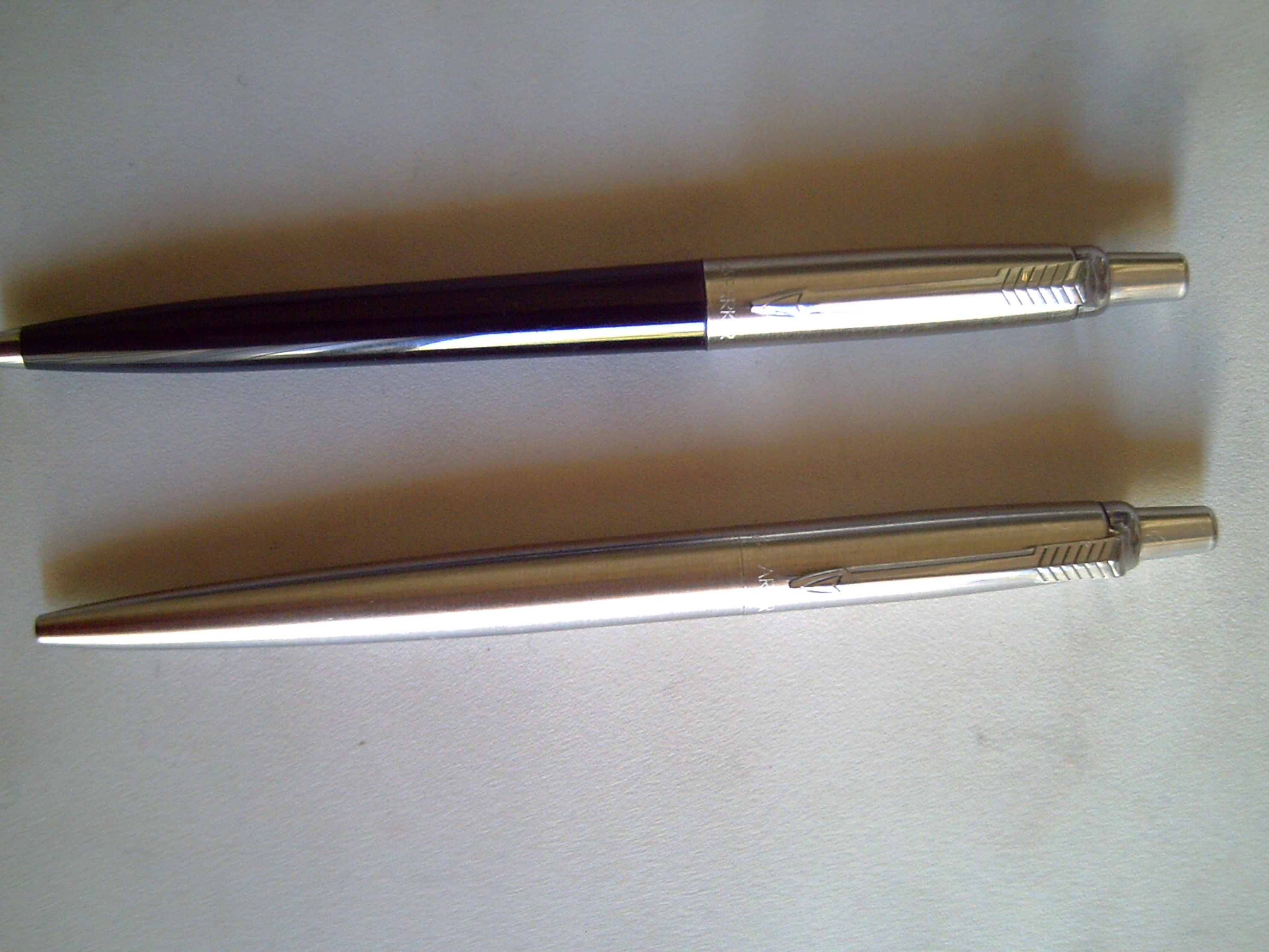 2 Parker Jotter ballpens. The first ballpoint pen from Parker was introduced in January 1954 under the name Jotter. It was advertised with the fact that its barrel could endure a load of 400 lb (181 kg) when stepped on. With the also introduced G2 large capacity ink cartridge with a slow wearing tip it could write five times longer than conventional ballpoint pens of the period.